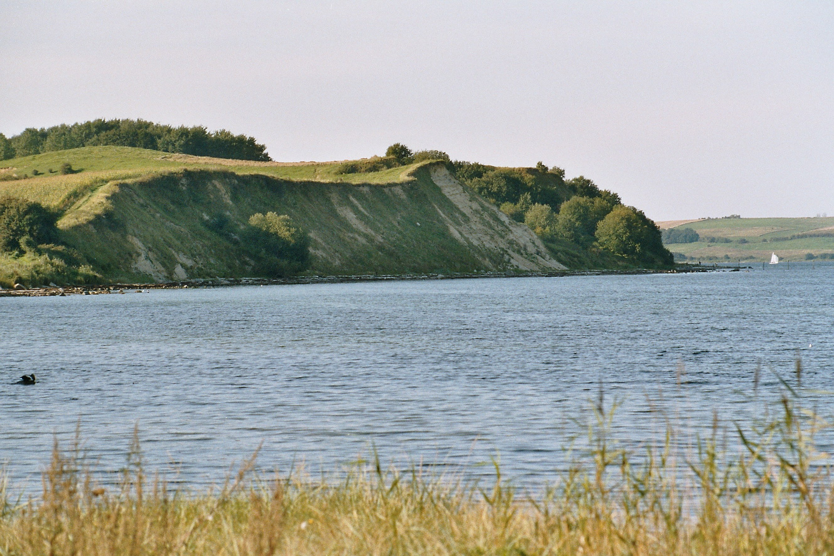 The cliffs of Stensigmose (Broager)